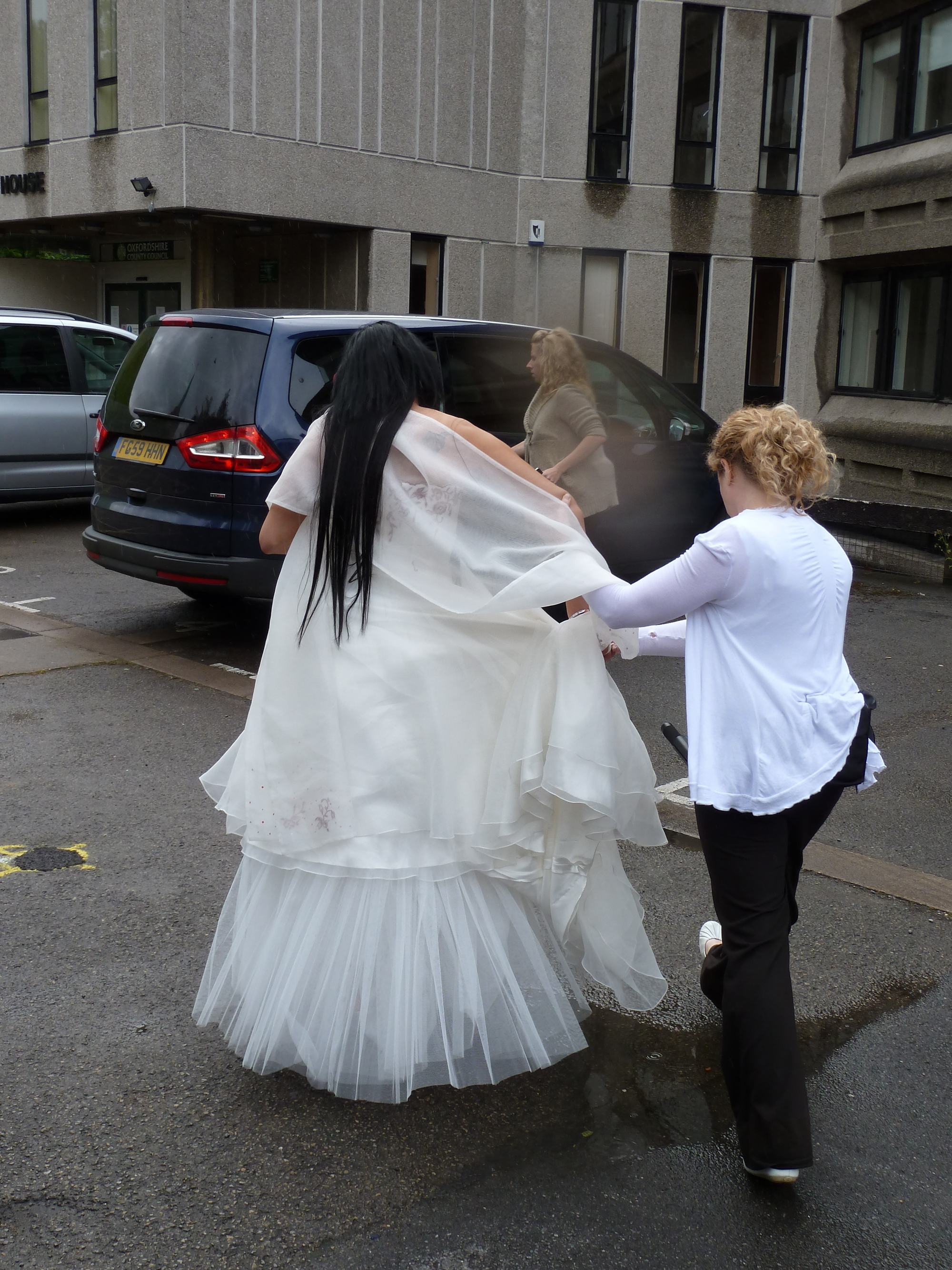 Operation by officers from the UK Border Agency at Oxford Registry Office on 8 June to stop a suspected sham marriage.